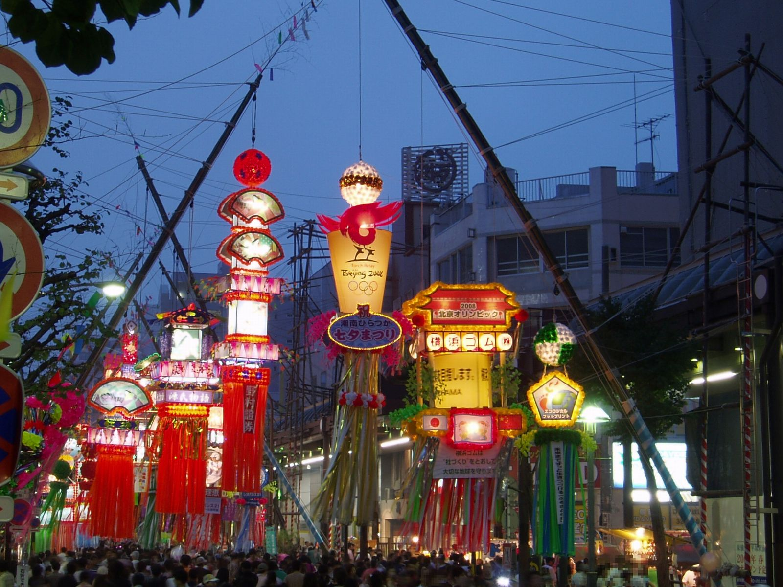 Shonan Hiratsuka Tanabata(night view)